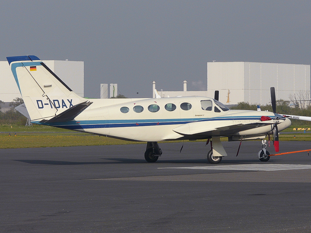 Cessna 425 Conquest I at Luneort (EDWB)D-IDAX